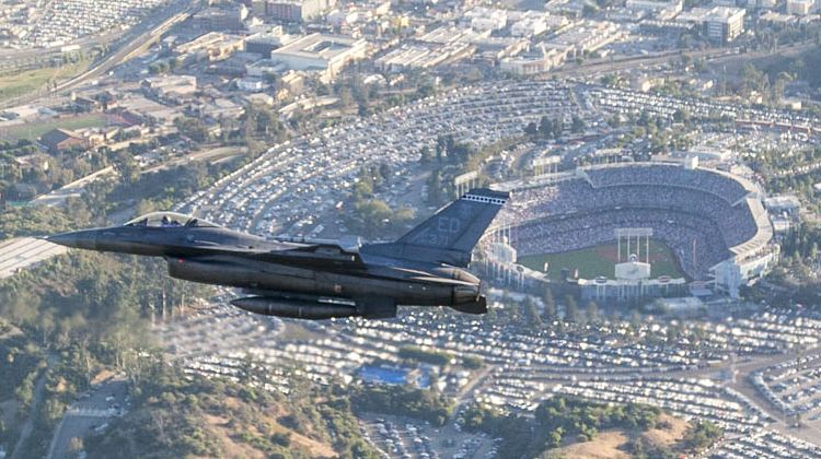 F-16 Fighting Falcon from Edwards AFB flies past Dodger Stadium after the ceremonial flyover at the beginning of game two of the 2017 World Series between the Los Angeles Dodgers and Houston Astros Oct. 25. (U.S. Air Force photo by Christopher Okula)